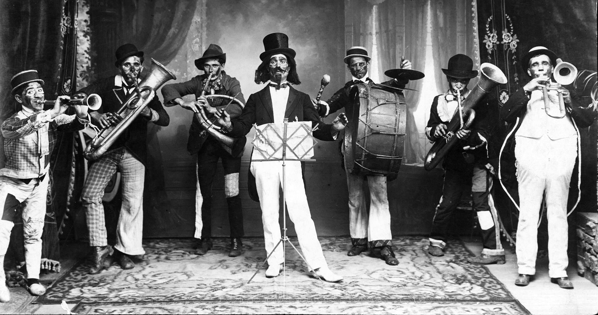 A Murga playing during the carnivals at Junín, Buenos Aires.